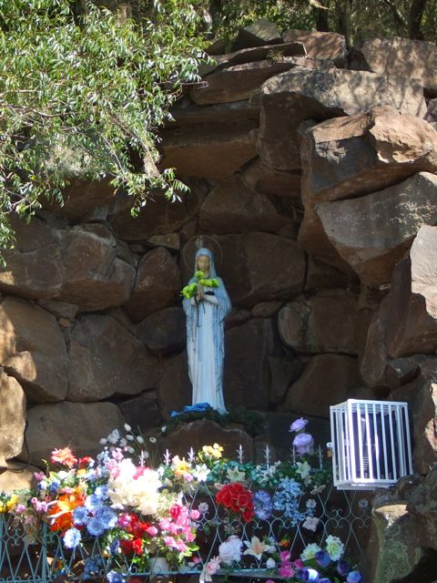 Gruta de la Virgen de Itacua.